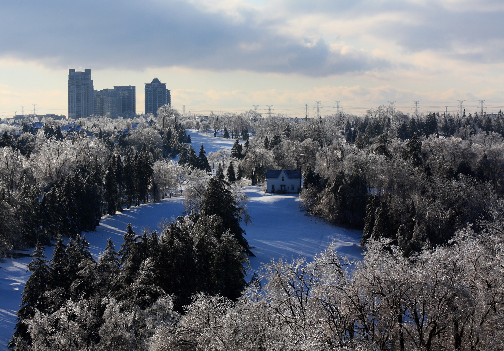 Ice storm in Thornhill